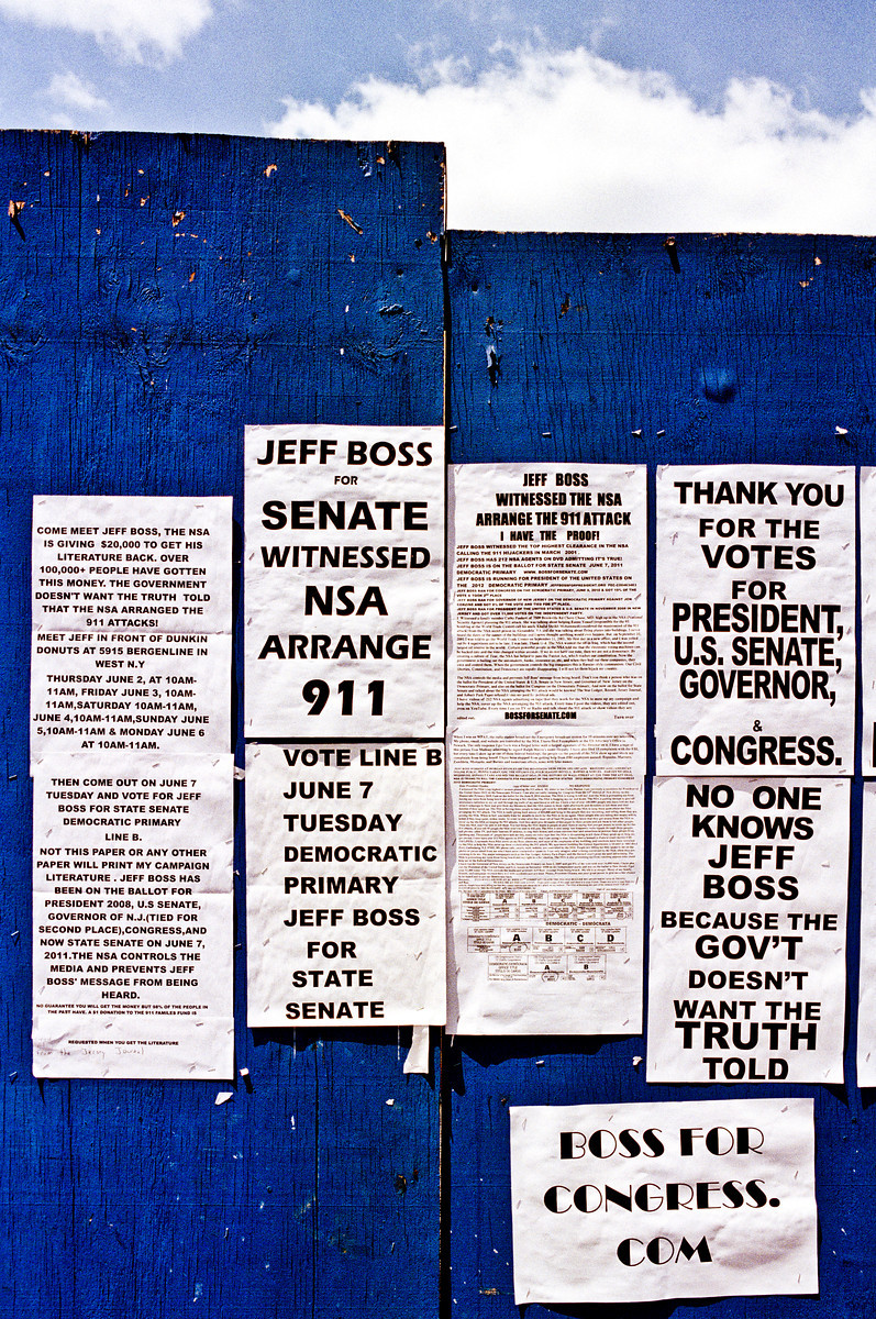 Jeff Boss campaign posters posted on 9th Avenue in Manhattan, June 2011.